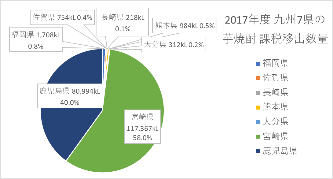 Production amount of Imo shochu in 2017